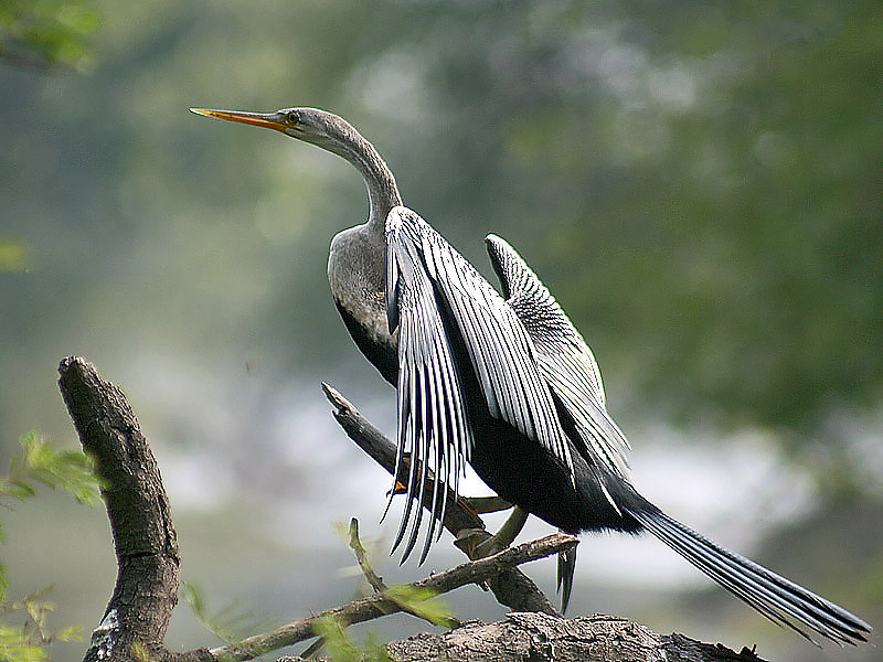 Darter Anhinga melanogaster at Bharatpur, Rajasthan, India.